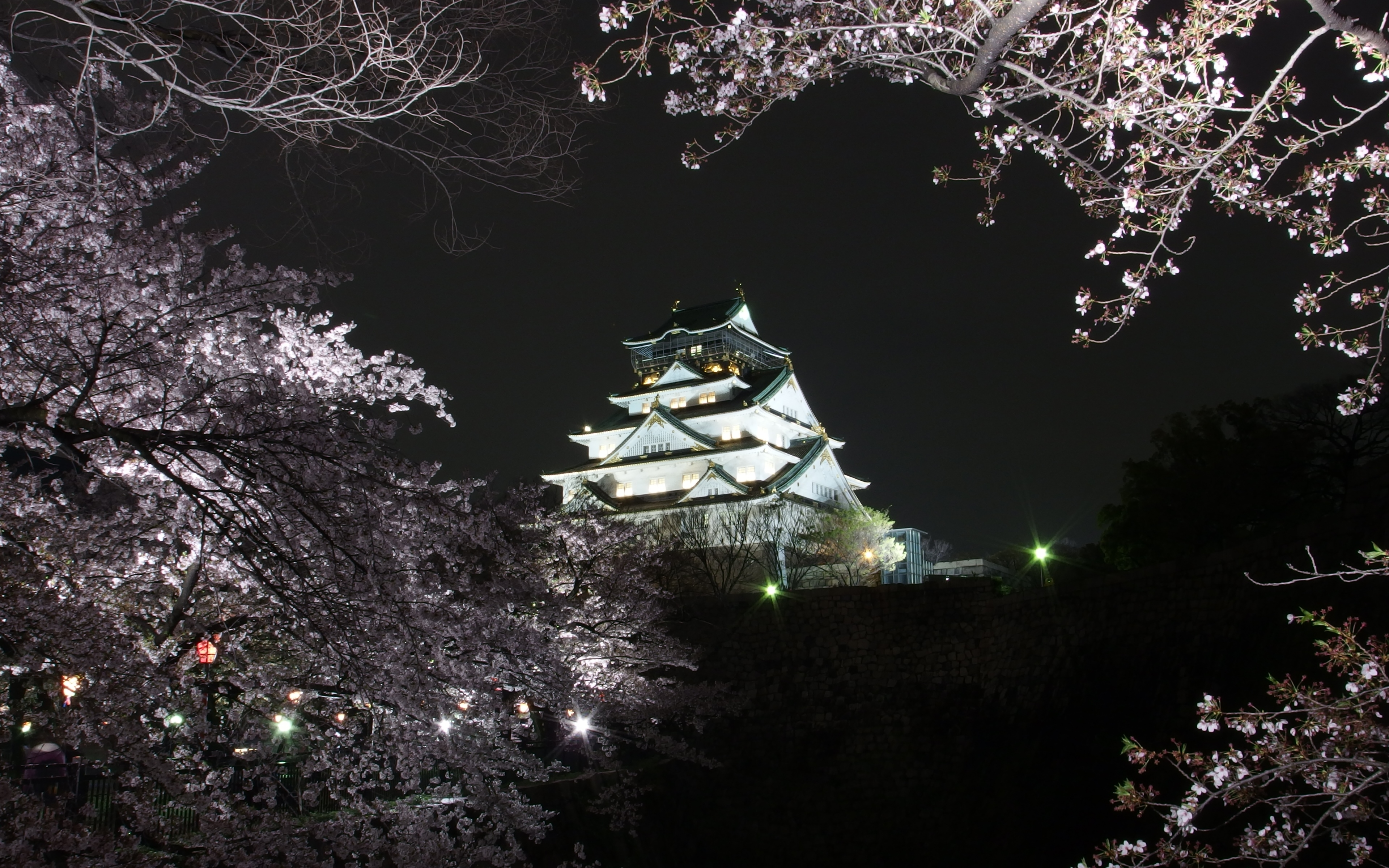 Osaka Castle in Osaka, Osaka Prefecture, Japan